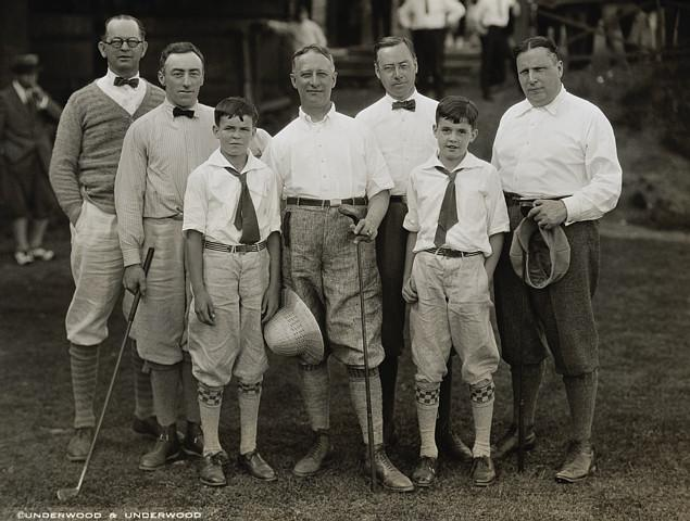 Robert Moran golf outing with Al Smith.